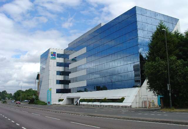 First Choice House - First Choice Holidays plc HQ, County Oak, Crawley, West Sussex. The administrative headquarters of First Choice Holidays plc, a holiday company. This office block is situated in the extreme SW corner of the grid square and is on the north western edge of the Manor Royal industrial estate. Most of the square is farmland, with the A23 trunk road sweeping through the W edge and a few hotels adjacent to the road. The airline First Choice Airways had its head office in this building. London Road, Crawley, West Sussex, RH10 9GX.